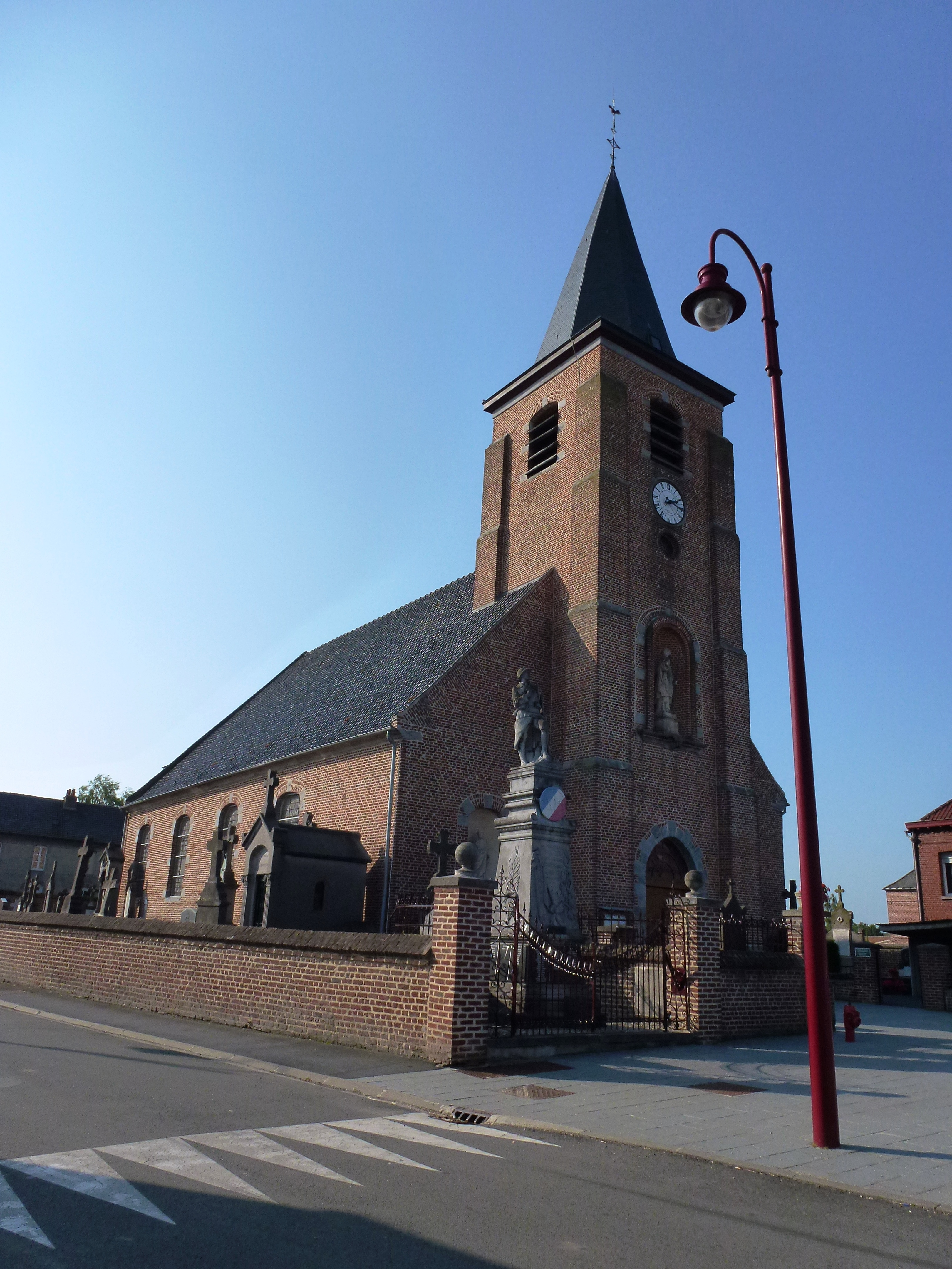 Saméon (Nord, Fr) église avec monument aux morts